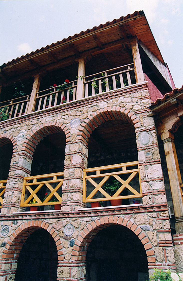 Tvrdos monastery near Trebinje